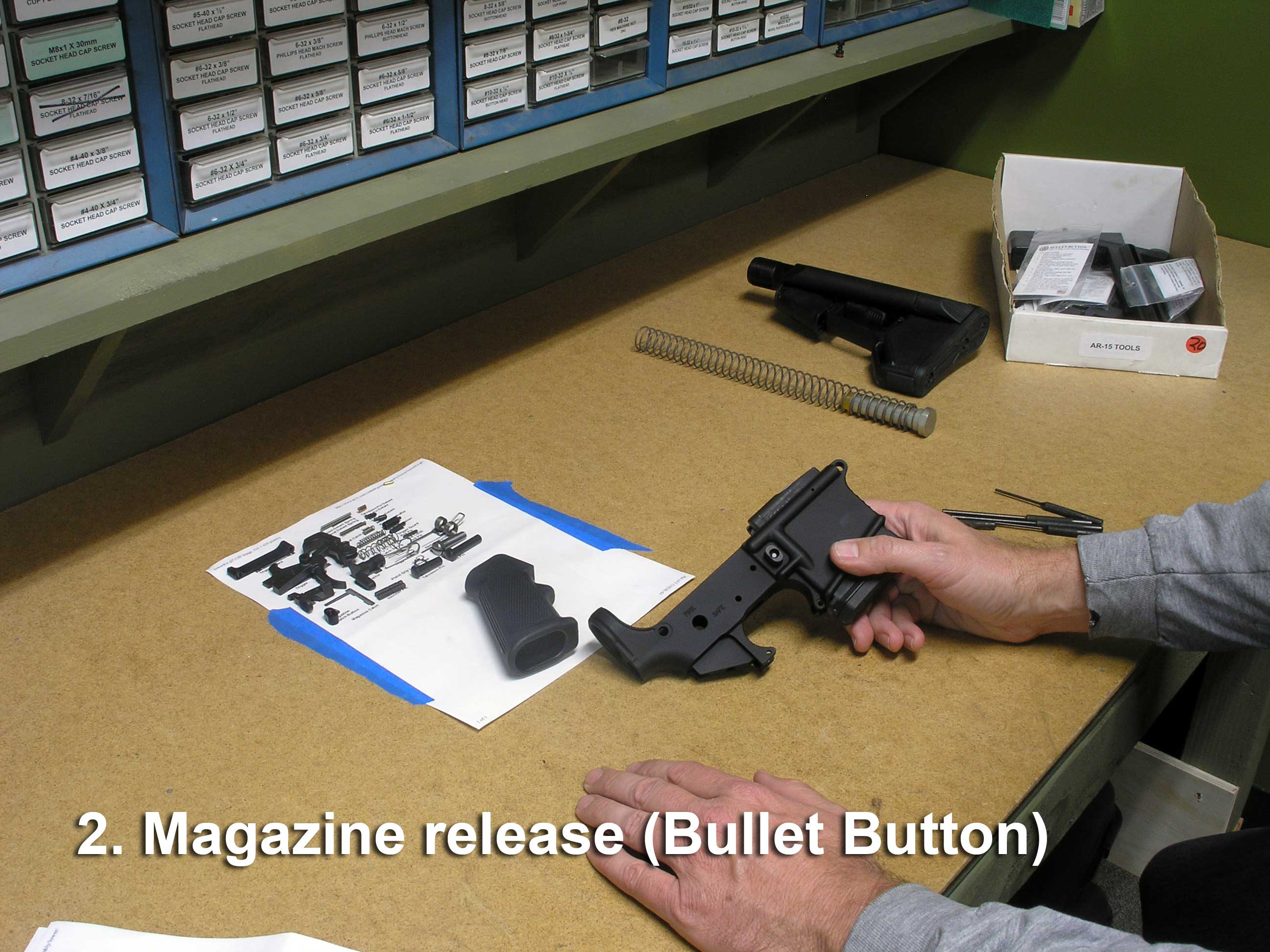 First assembly step is to install the magazine catch and release. Here in California, instead of the standard release, we install a Bullet Button that recesses the magazine release in a sort of shroud so the magazine can only be released using a tool (like a bullet tip), as per California Department of Justice regulations concerning the definition of a detachable magazine. Installing truly detachable magazines on normal configuration AR-15s in California is a felony.